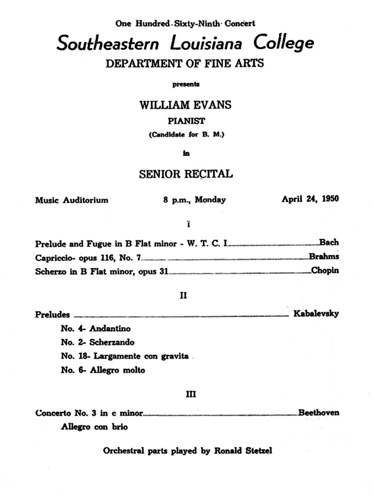 Programme of Bill Evans's graduation concert